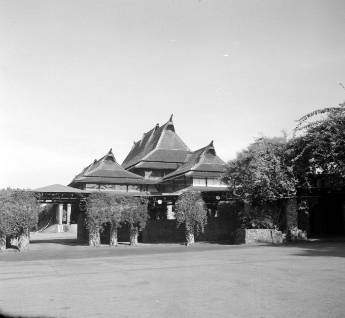 Institute of Technology, Bandung